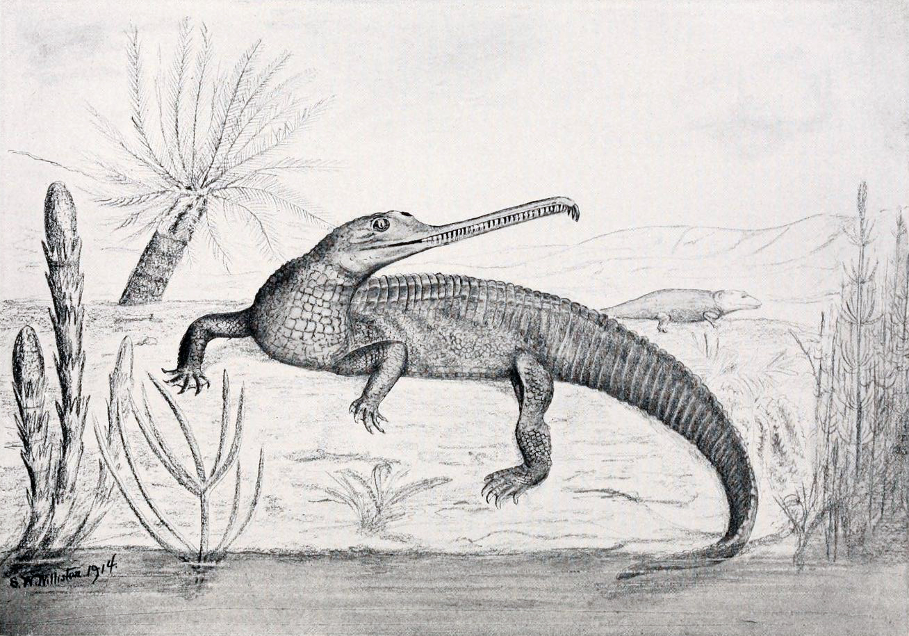 Mystriosuchus from Water Reptiles of the Past and Present, 1914 United States